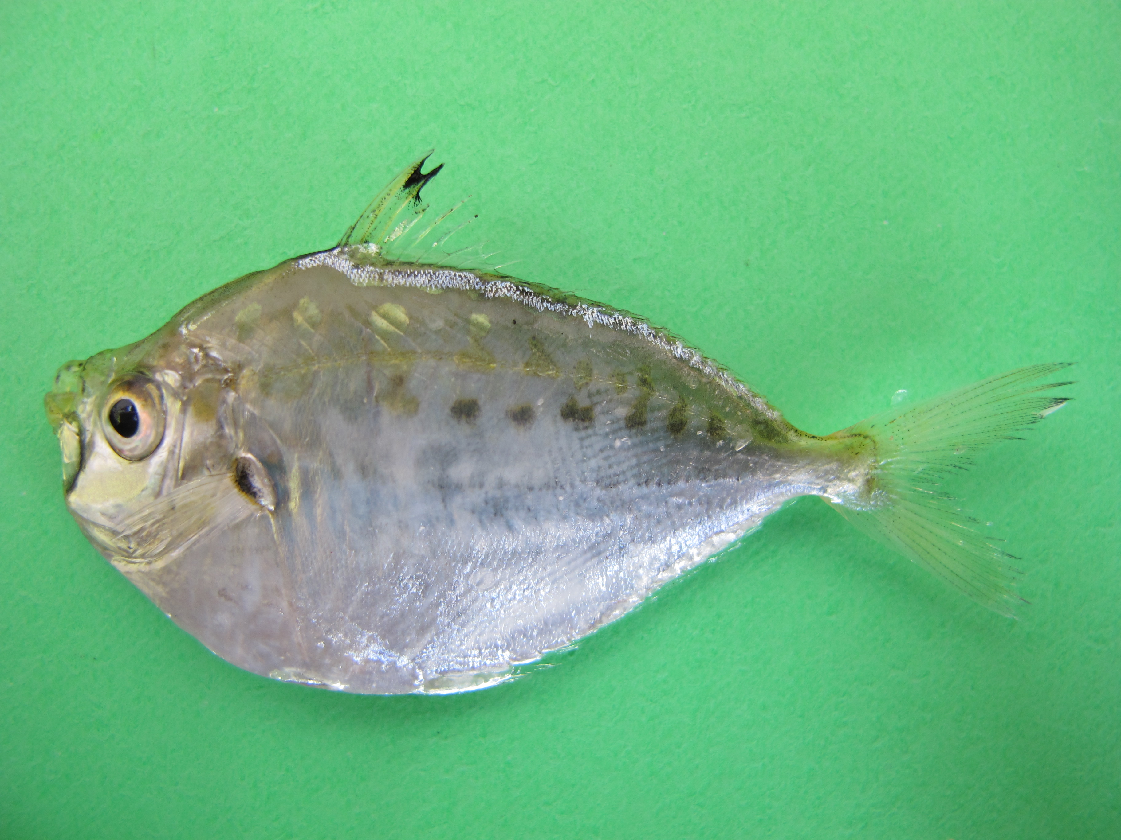 Secutor ruconius found in Pulau Santan, Banyuwangi, Indonesia